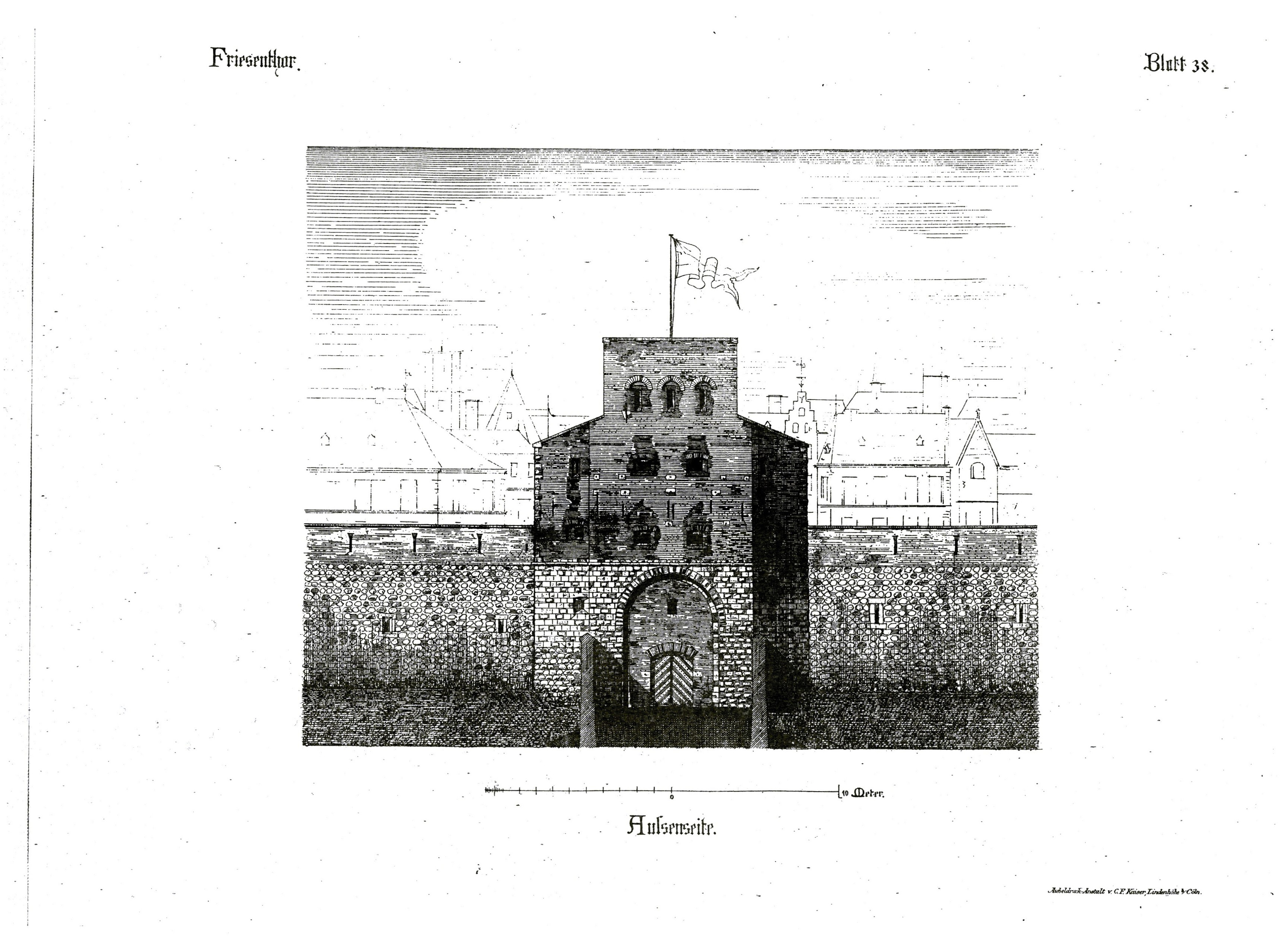 This is a scan of the historical document